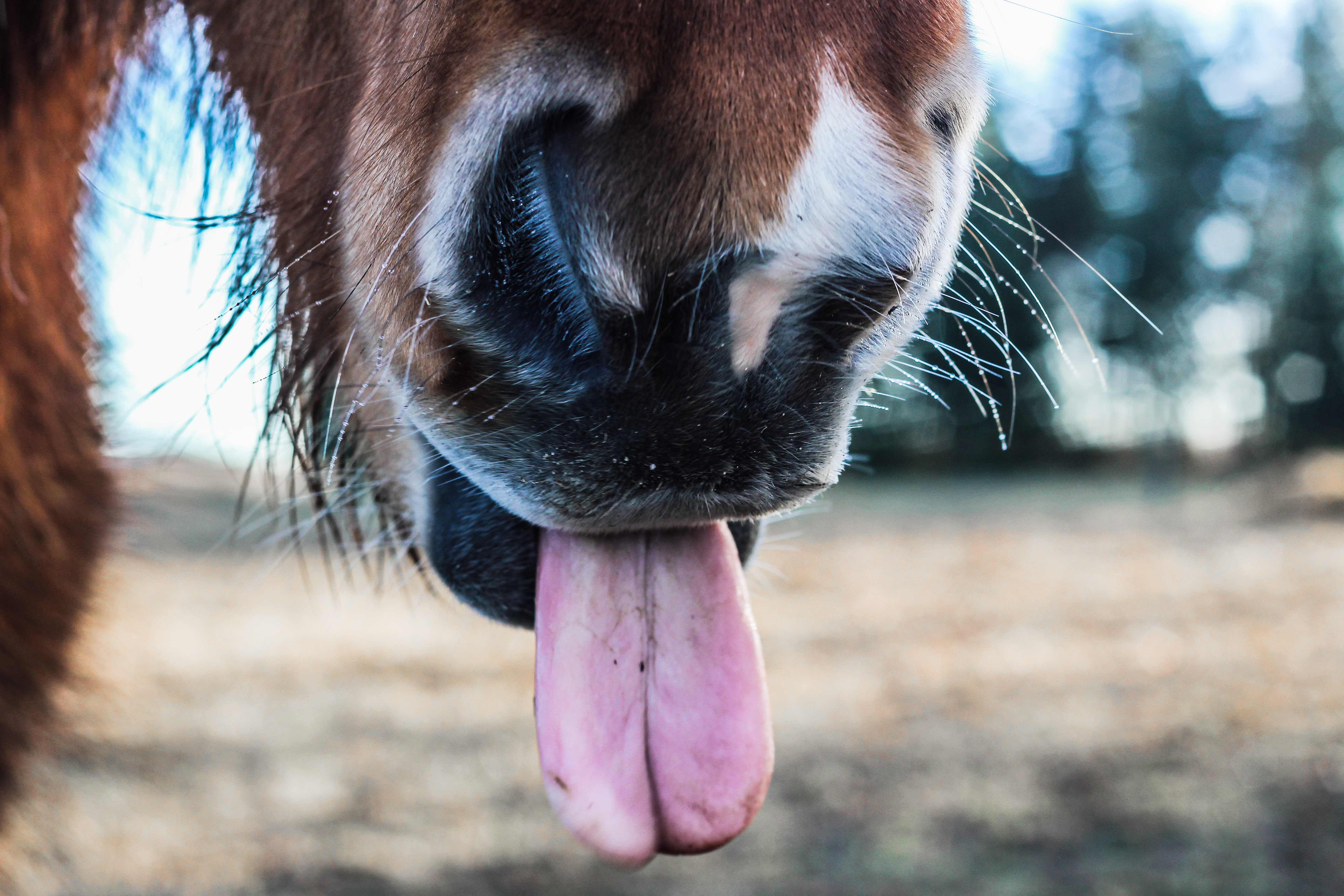 Mona Eendra 2016-12-20